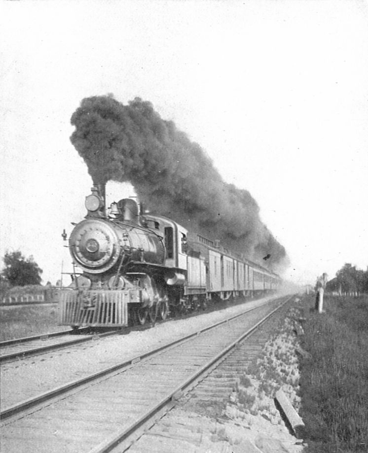 "Westward Ho!" The Imperial Limited at full speed. Canadian Pacific Railway